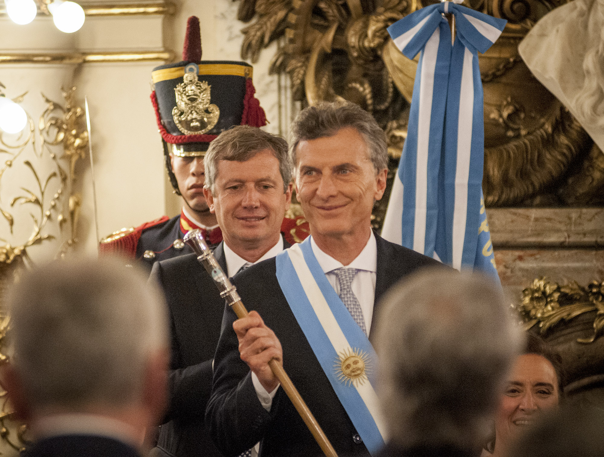 Macri having received the presidential scepter.